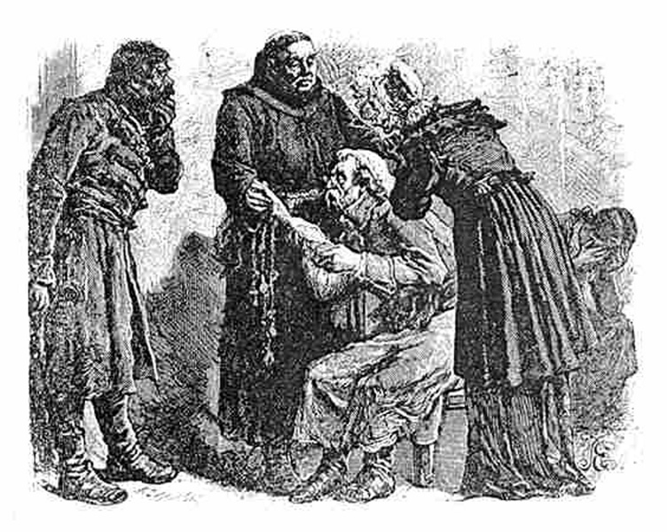 Illustration of Pan Tadeusz, Book 1